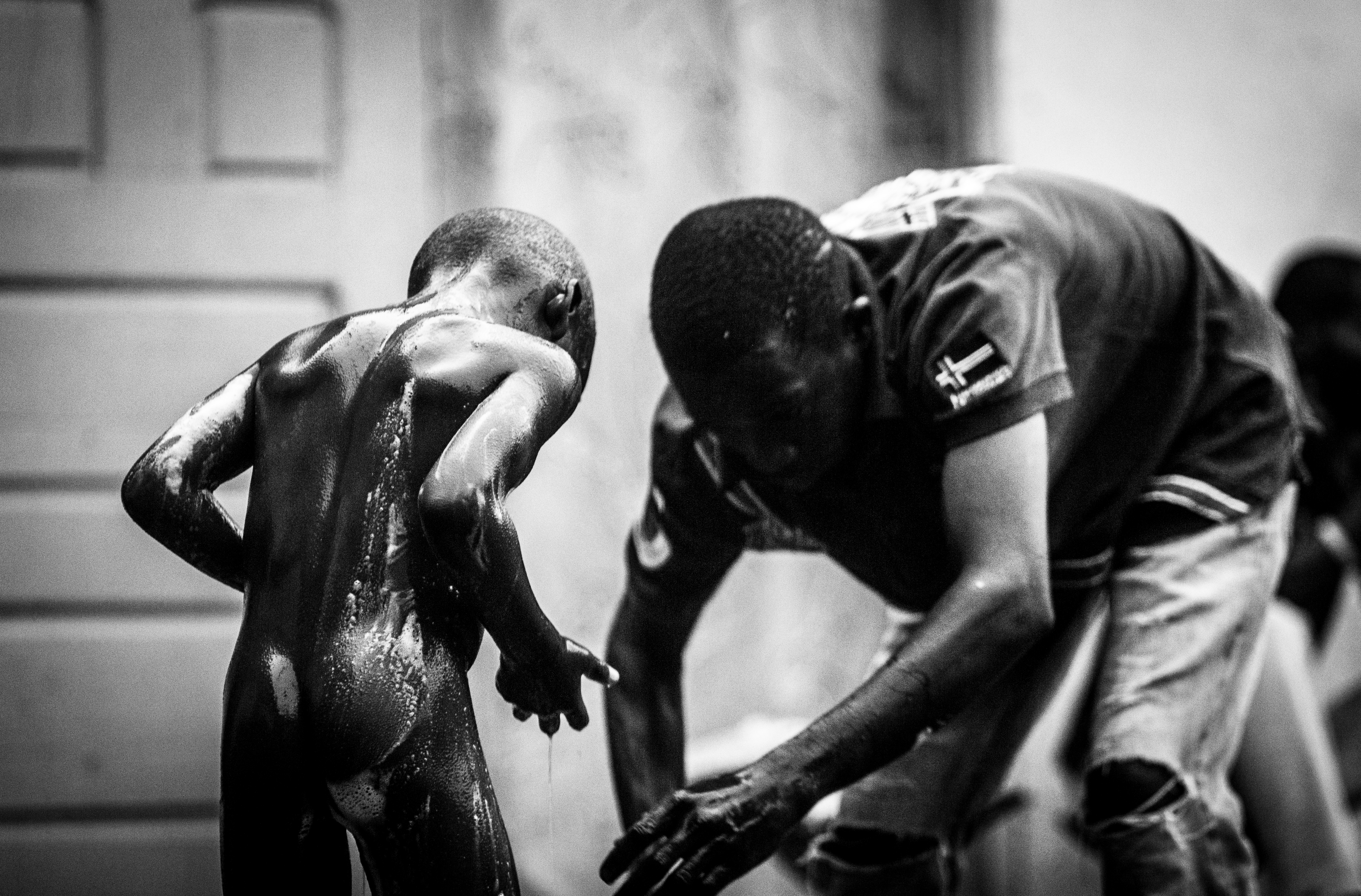 after a long day of leisure on the black sand of the largest neighborhood takes care of washing us before going to bed and that for years This is an image with the theme "Africa on the Move or Transport" from: Congo